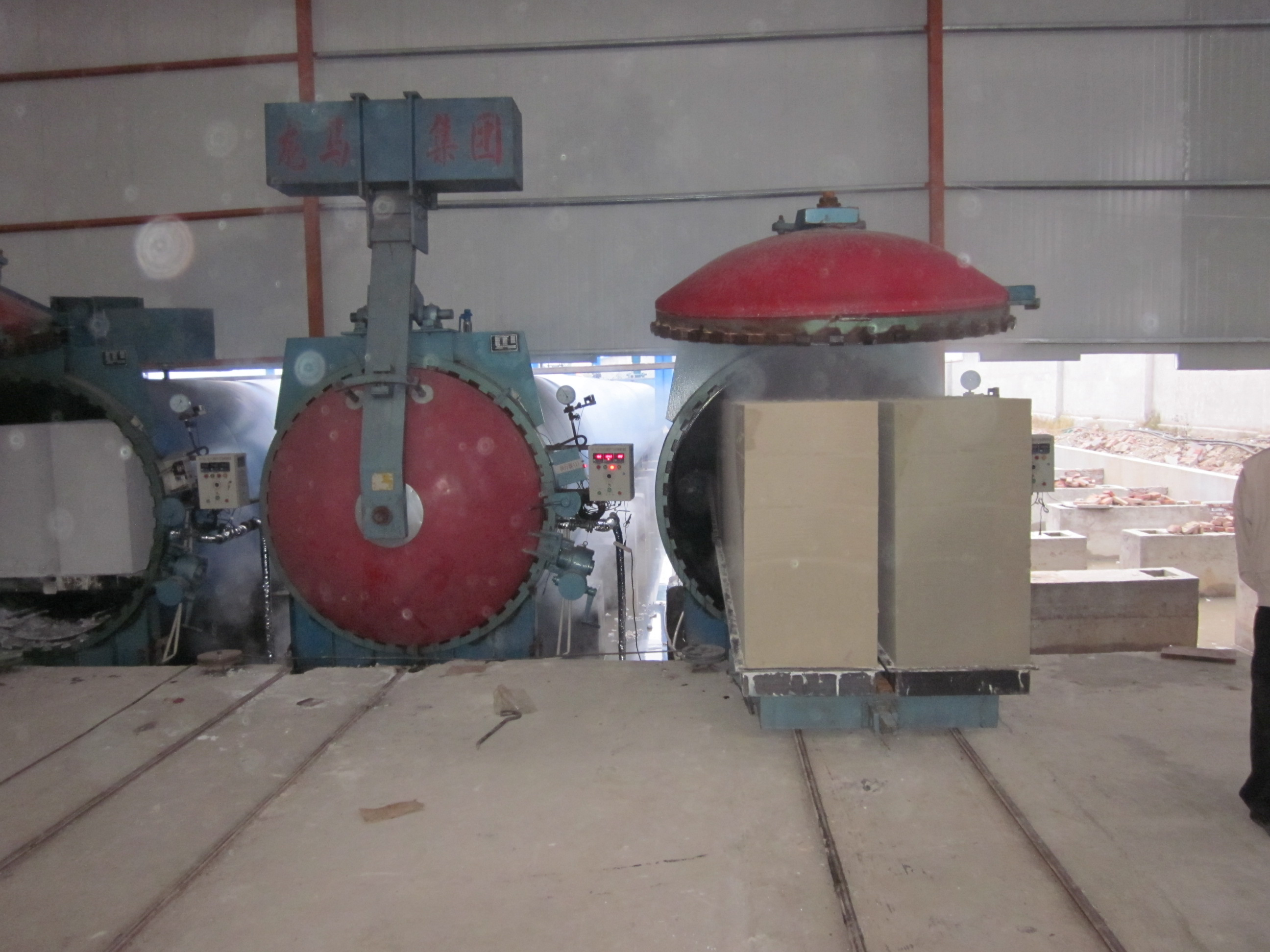 Green AAC blocks fed in to autoclave for curing